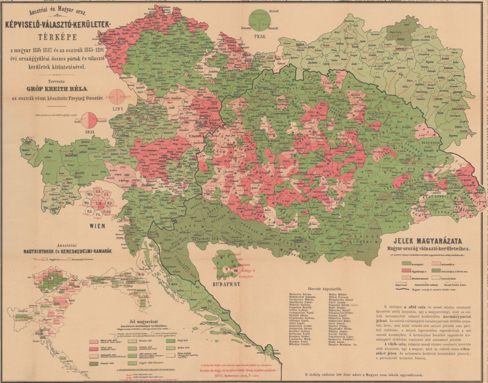 Political map of the Ausgleich. Electoral districts with majority of the A-H compromise supporter parties are in green. Electoral districts with majority against the A-H compromise are in red/purple. The map is based on the Austrian general elections between 1885-1889, and the Hungarian parliamentary elections between 1884-1887.